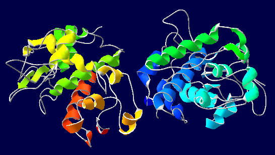 Chitinase from barley seeds. Gen w/ Deepview using PDB:1CNS